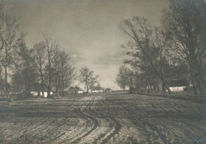 Country road in Vilnius Wiłkomierz county, 1934, prewar Poland. From the series: Poland in photographs of J. Bulhak.